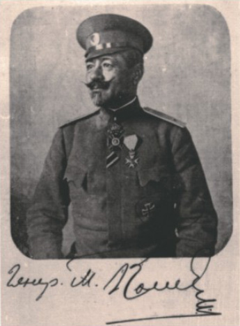 Lieutenant general Ivan Kolev